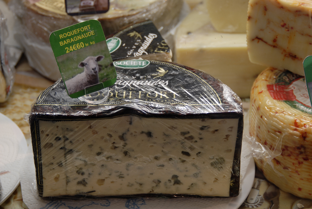 Sheep's milk Roquefort cheese in Grenoble, France.